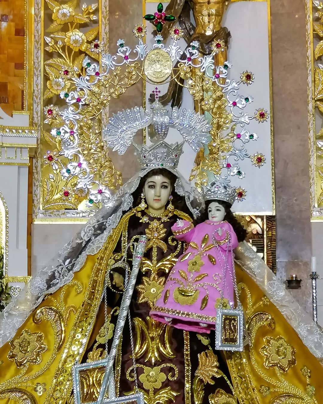 The Episcopally crowned image of Impo Karmen